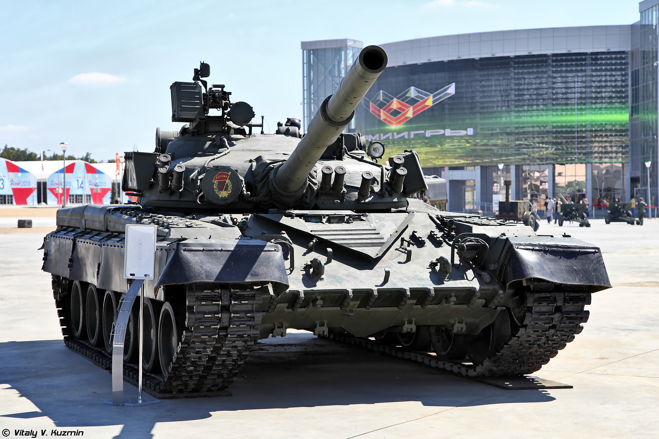 Object 219R T-80B